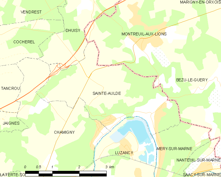 Map of French municipality Sainte-Aulde